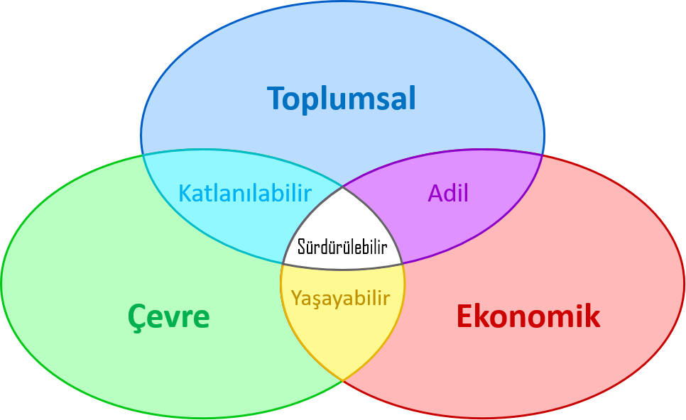 translation of the sustainable development.svg into Turkish